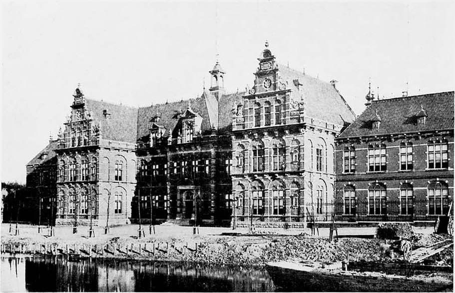 Adrianus Cyrianus Bleijs (architect). Sint-Elizabethgesticht, also spelled St. Elisabethgesticht, now Arena Hotel, Mauritskade 28, Amsterdam. 1888.